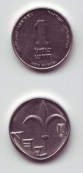 1 NIS coin - התשס"א Reverse is based on ancient coin, and has Aramaic name of Judea (יהד) in ancient script.